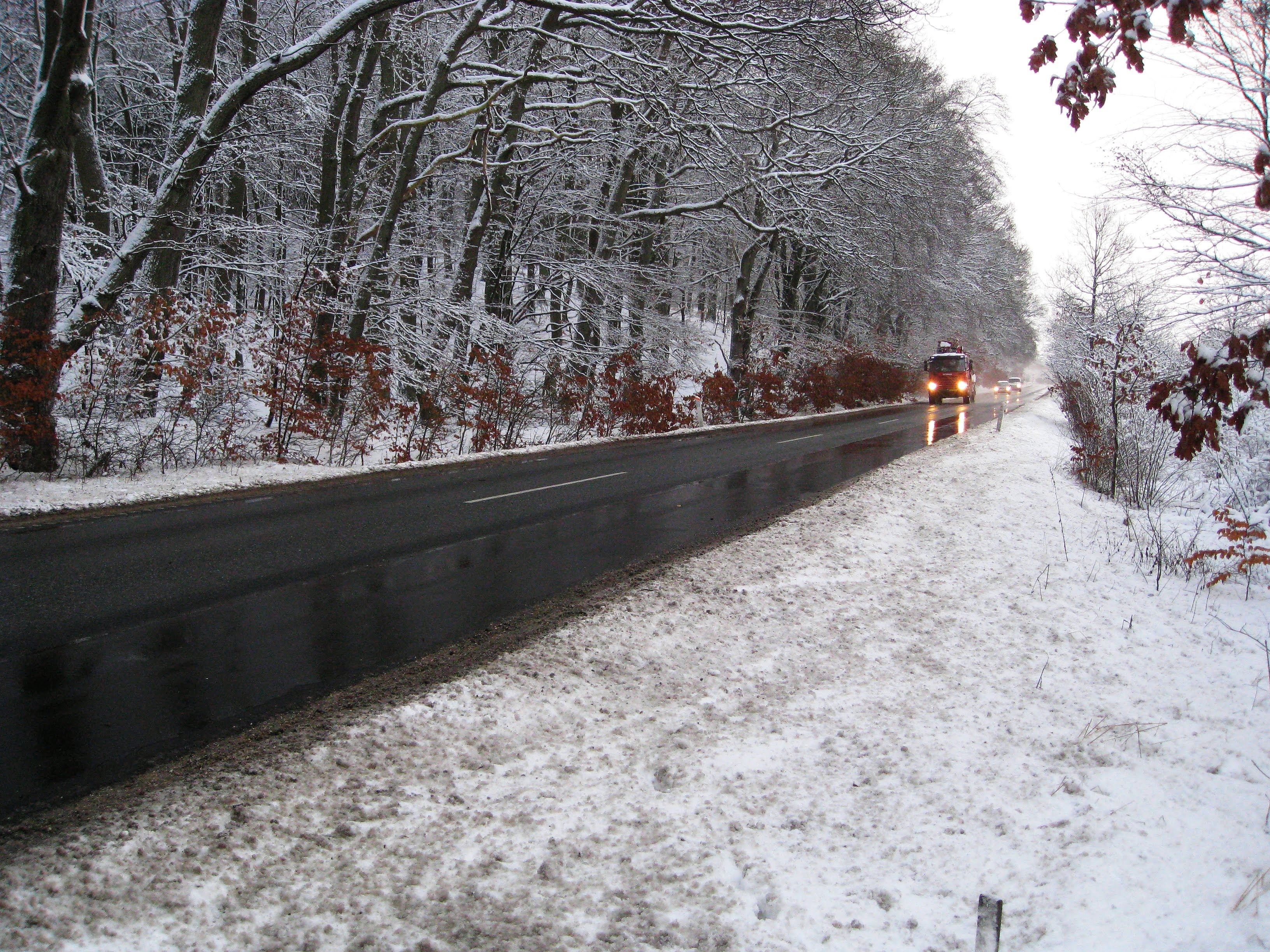 Fjeld Skov, Djursland